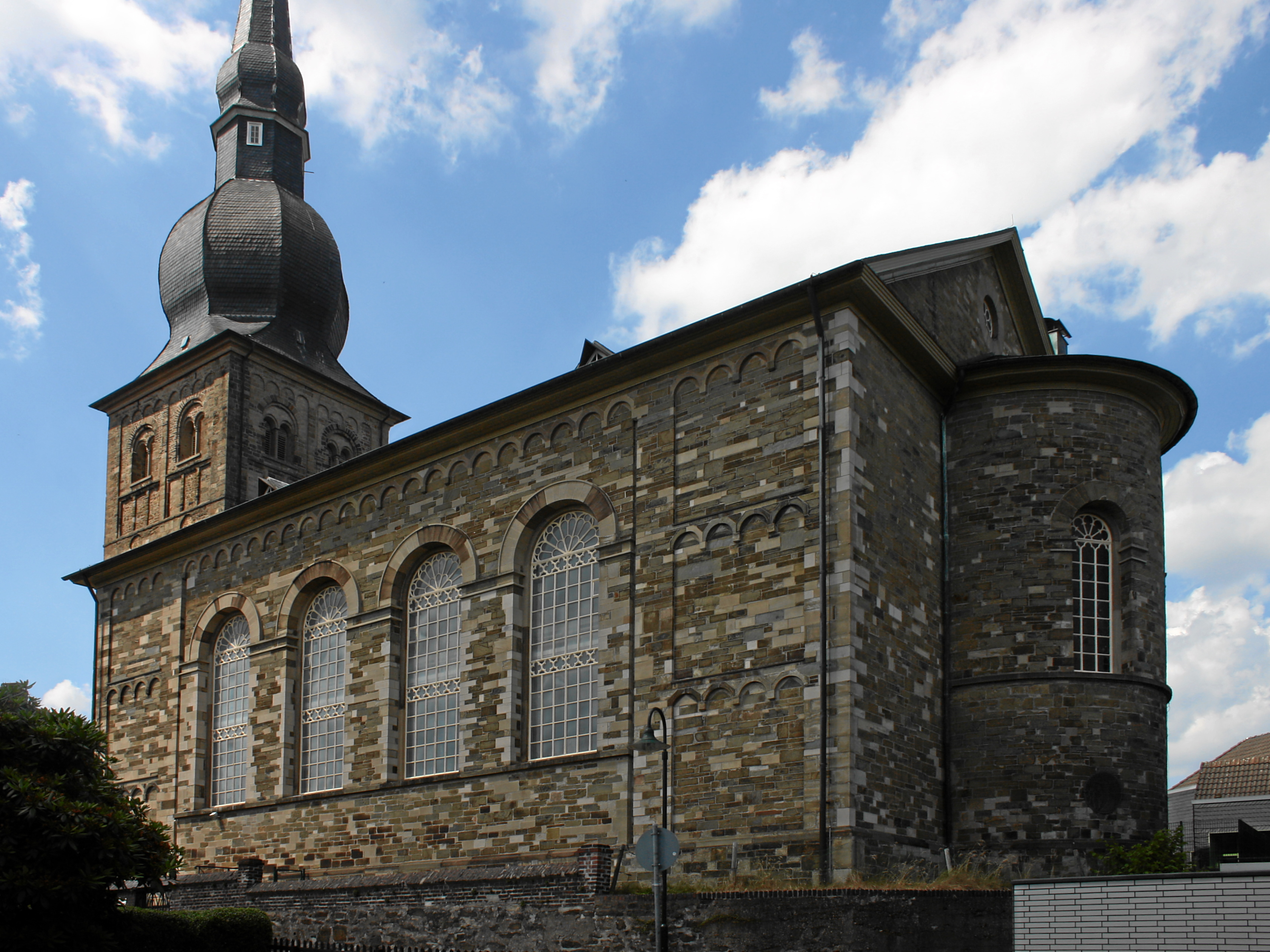 Wermelskirchen, Germany. Protestant city church, exterior view from South-East.